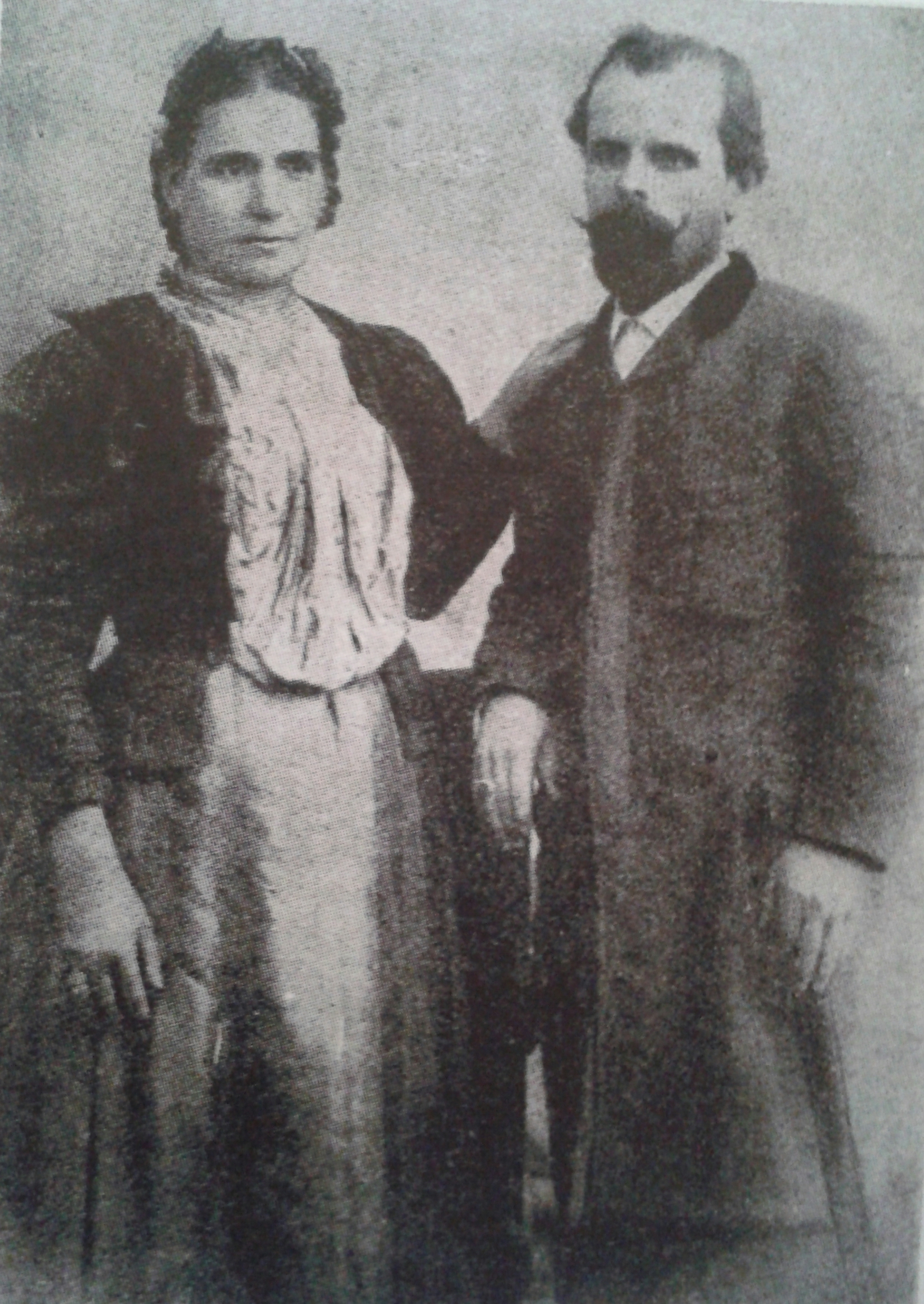 Krastyo Yankov (Bulgarian icon painter) and his wife